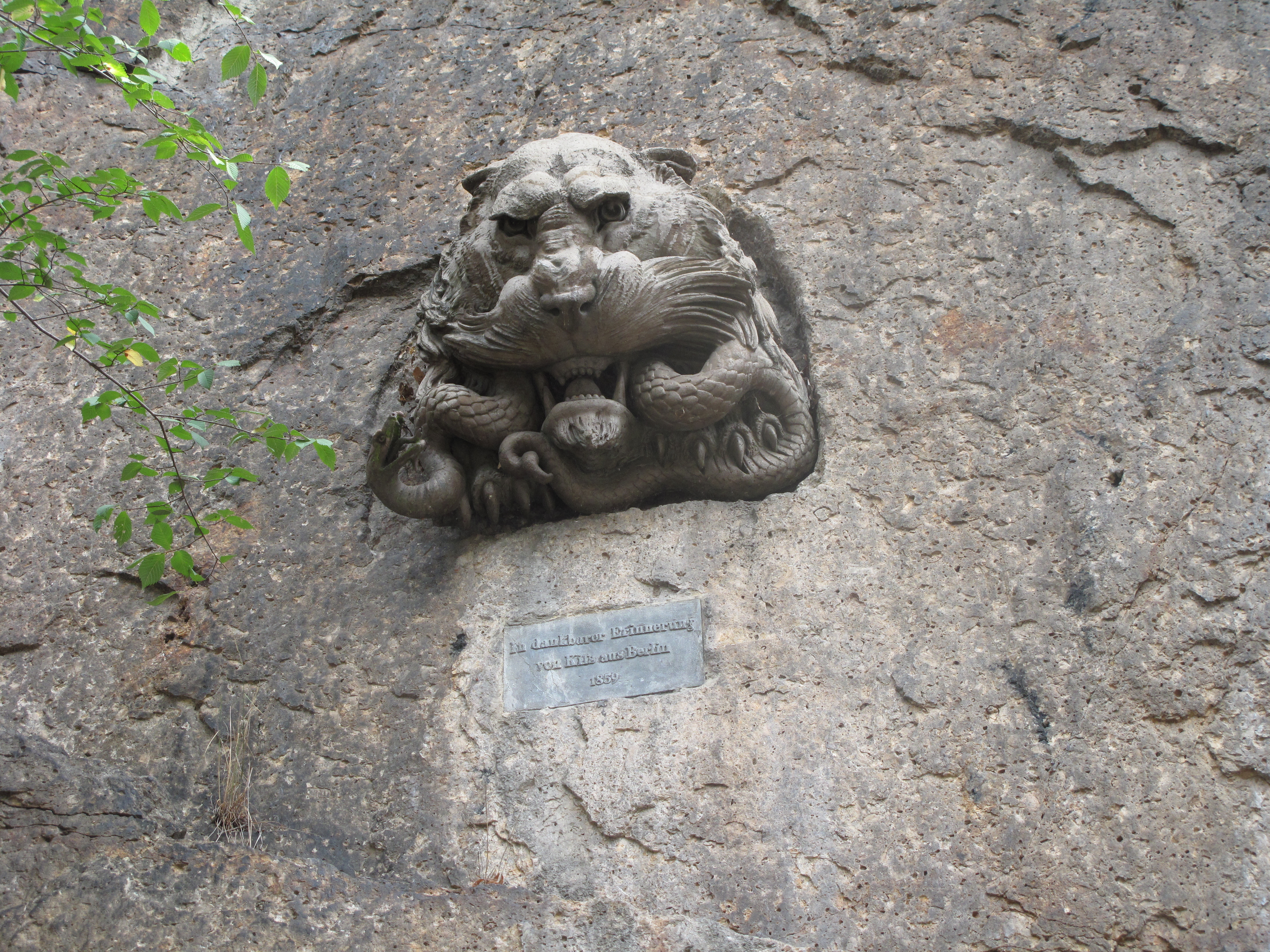 Lion head at Goethe Road, Karlovy Vary, Czech Republic.